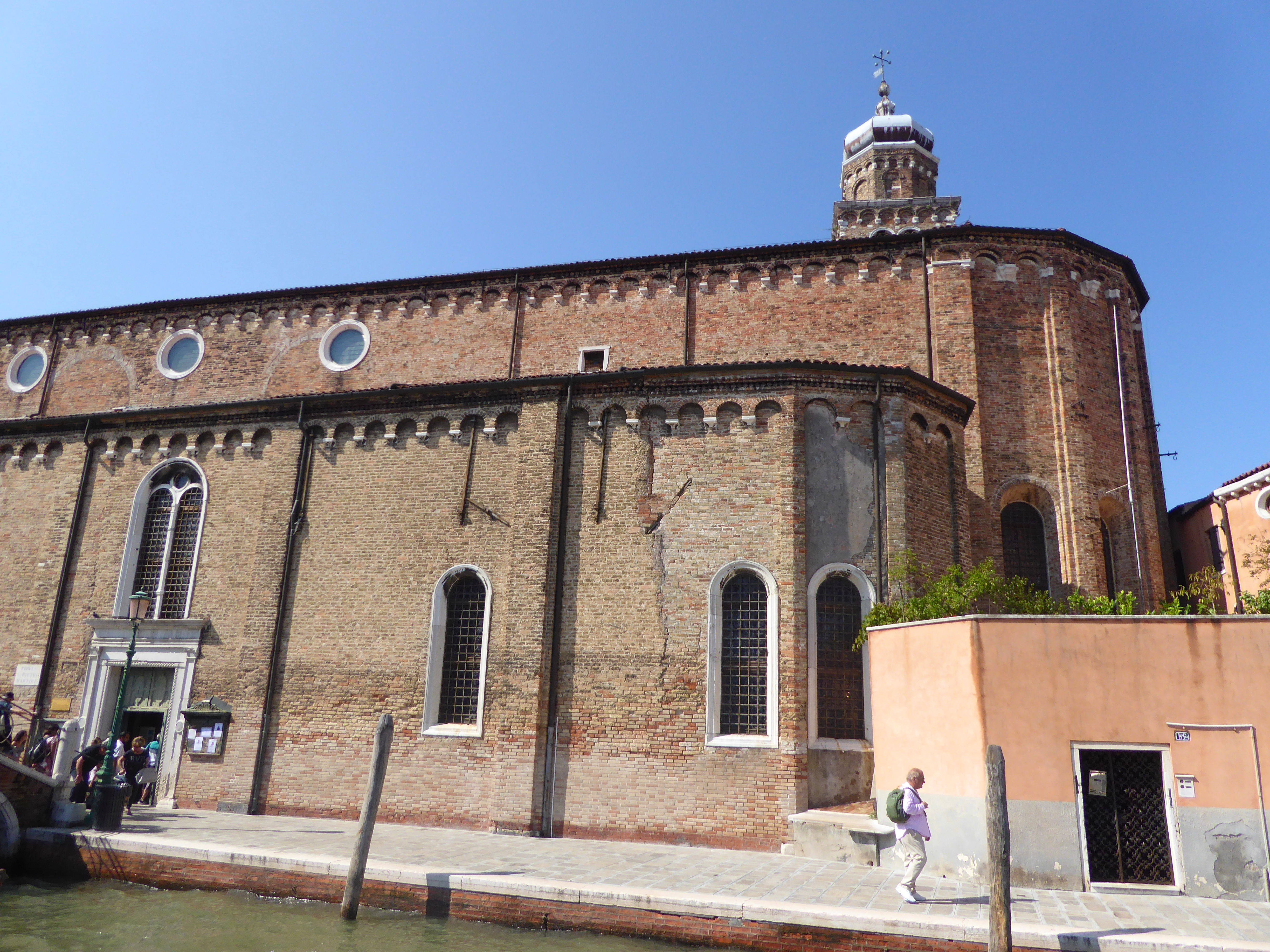 External detail on the Chiesa di San Pietro Martire, Murano.